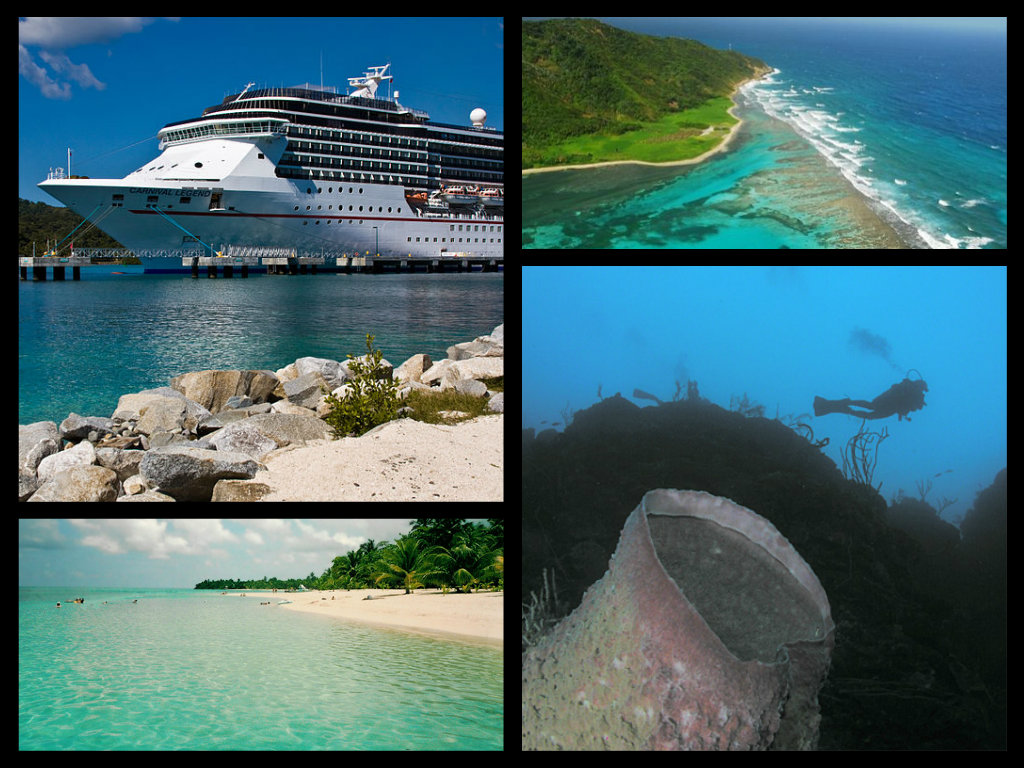 Collage of the Bay Islands.